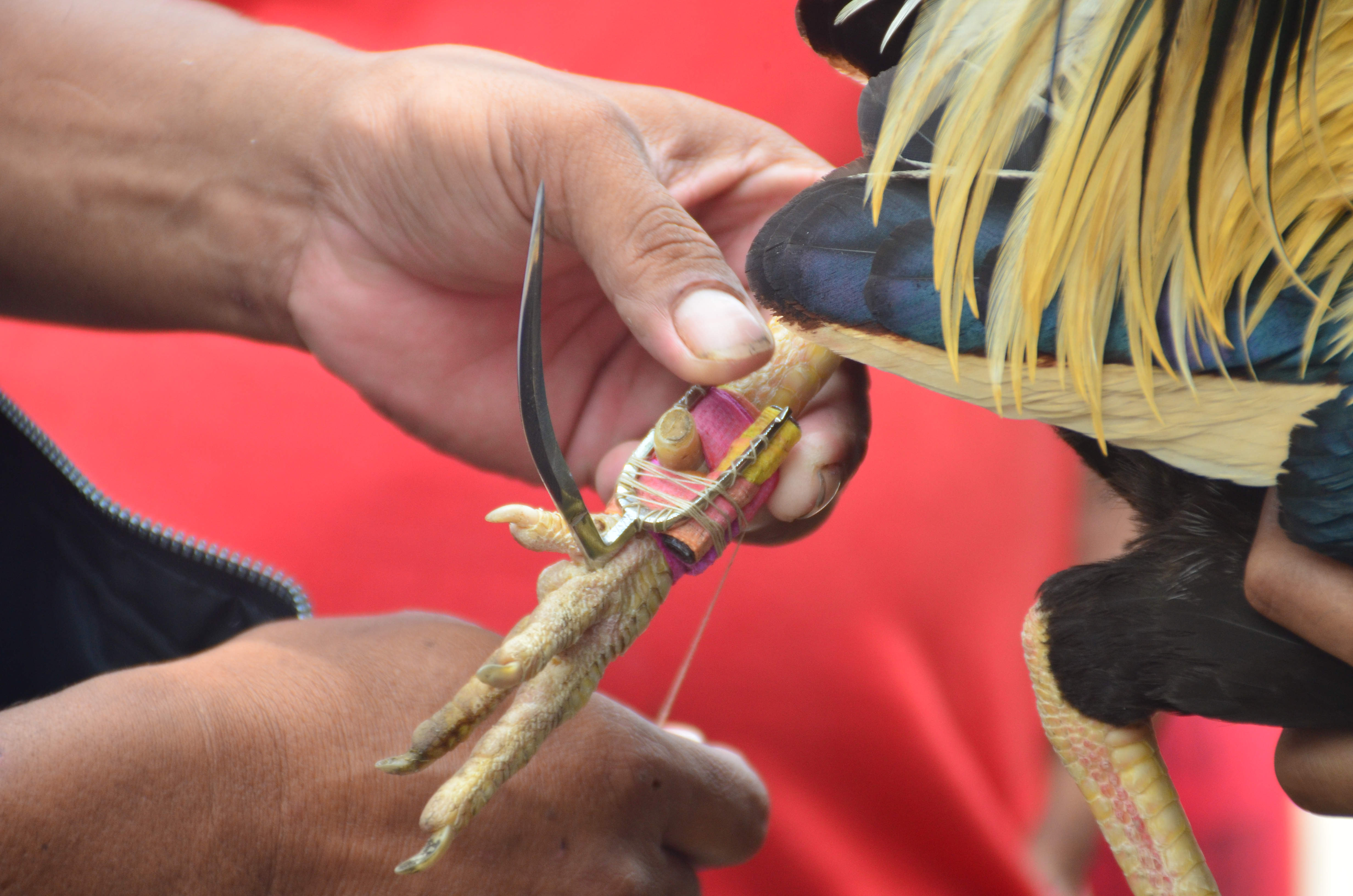 a local custom - cockfighting